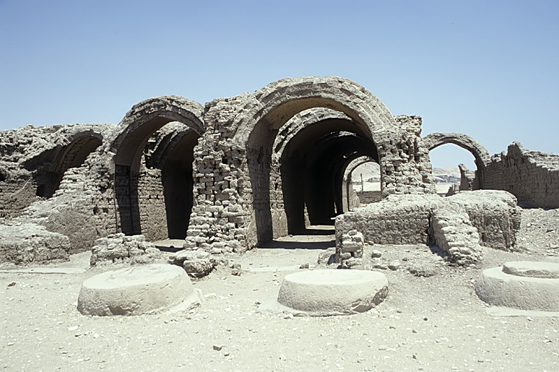 Ramesseum, store houses in the north part of the temple, Luxor West Bank, Egypt